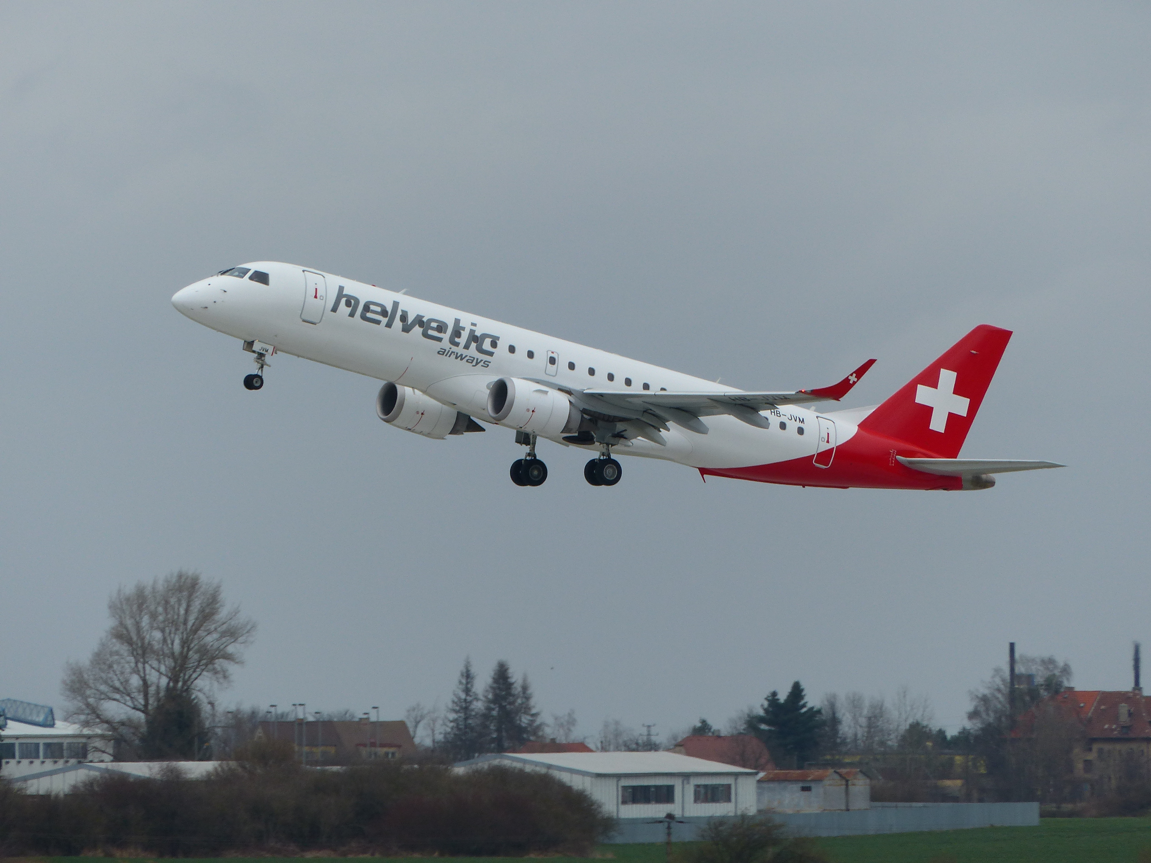 HB-JVM Helvetic Airways Embraer ERJ-190